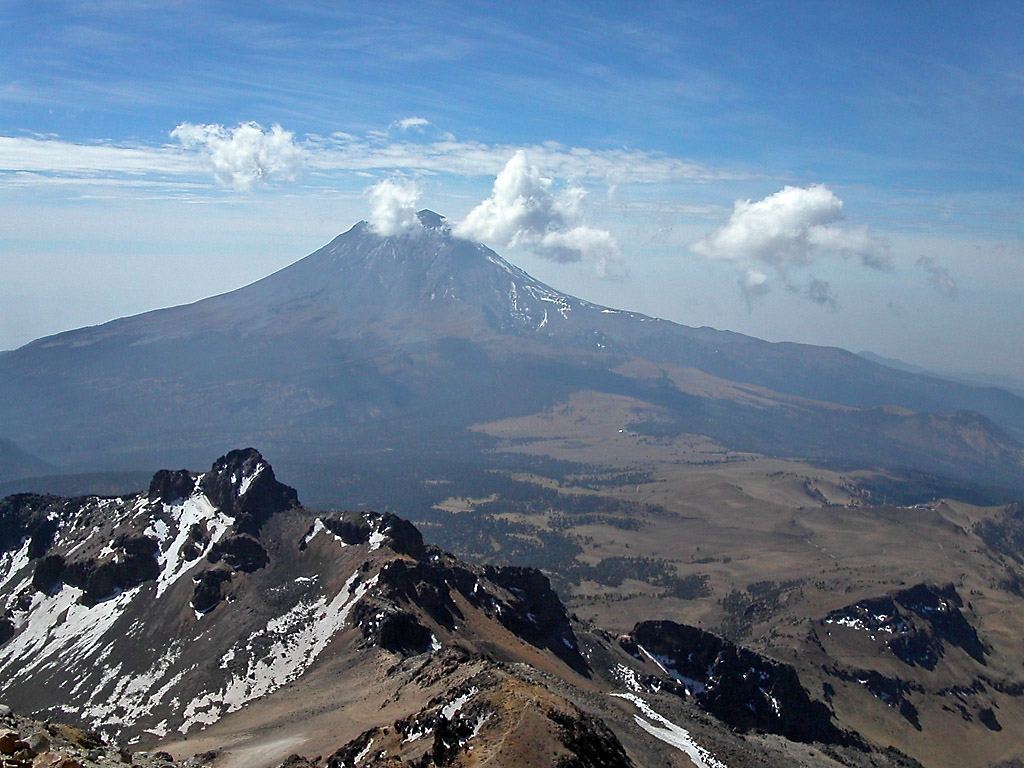 View of Popocatépetl — from near the summit of Iztaccíhuatl. Part of the Trans-Mexican Volcanic Belt — a principal volcanic mountain system in central México.